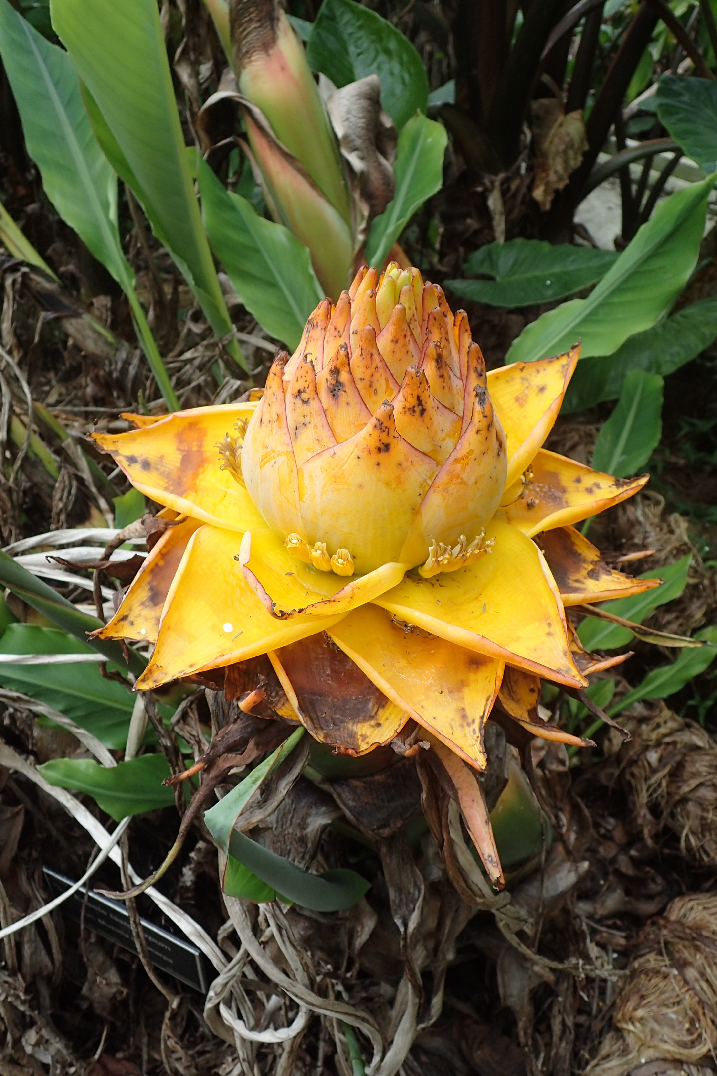 Musella lasiocarpa in Auckland Botanic Gardens